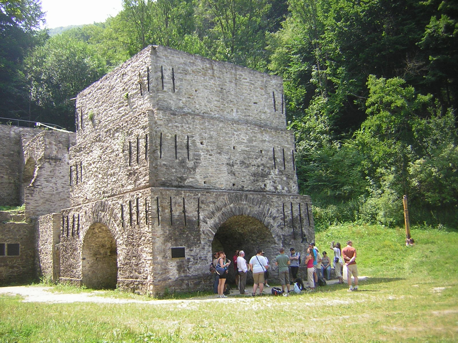 Balst furnace in Újmassa, 1813